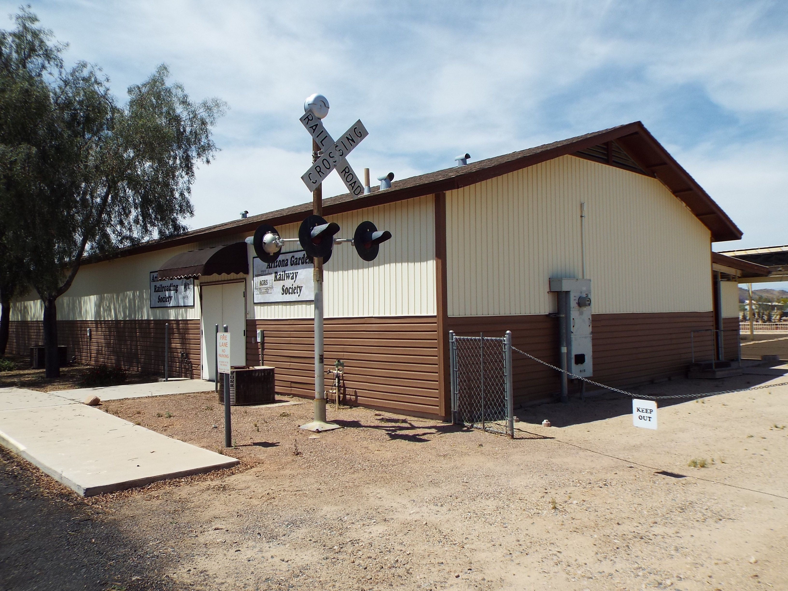 The Arizona Model Railroading Society/Arizona Garden Railway Society (AMRS) headquarters in the Adobe Mountain Park in Glendale Az.